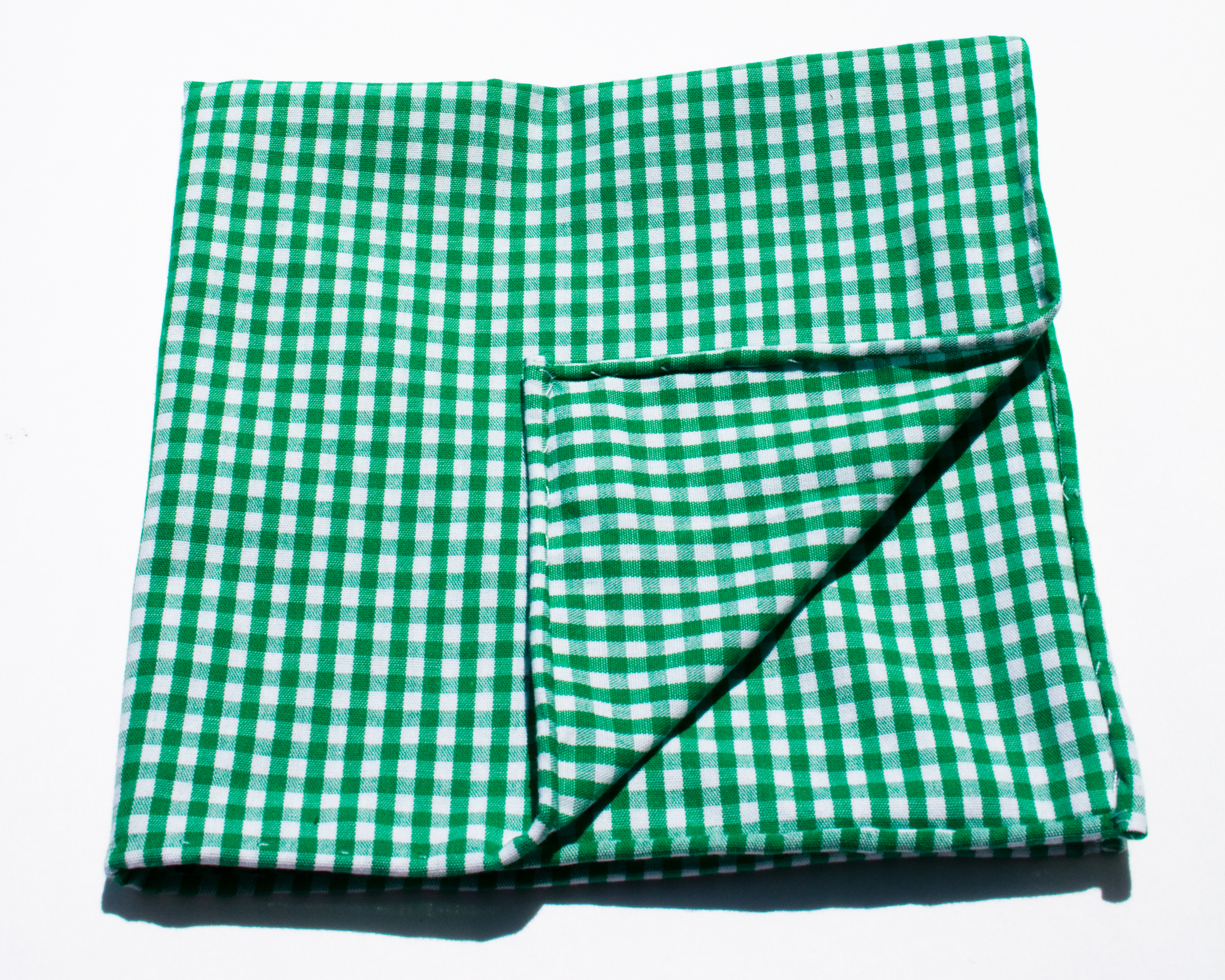 Green and white check Gingham cloth (Pocket Square by Kent Wang)